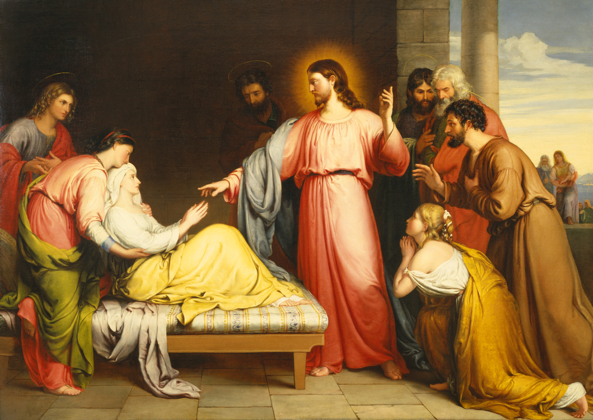 Christ Healing the Mother of Simon Peter’s Wife by John Bridges, 1839